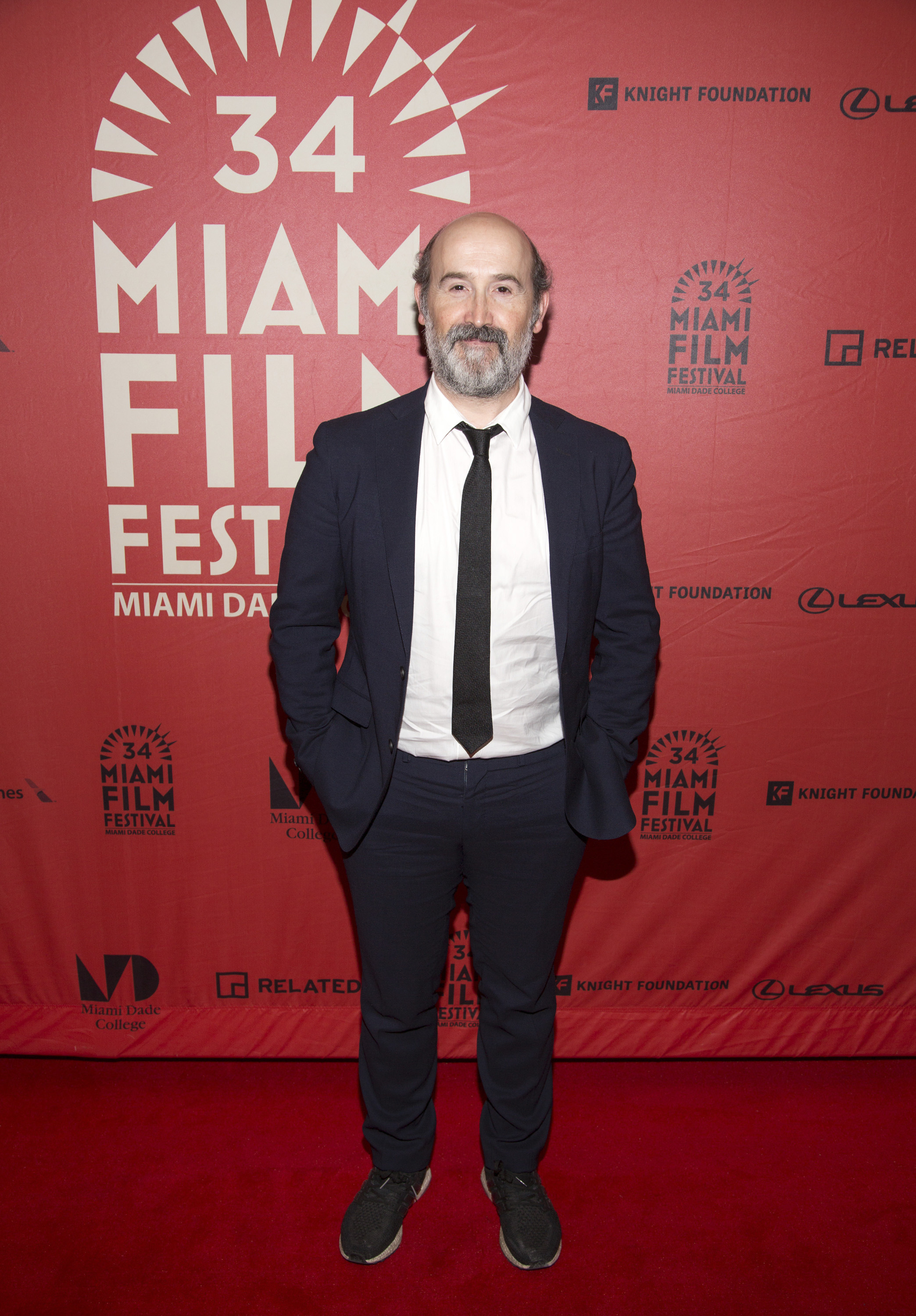 Javier Camara at the Closing Night Awards and the film screening For Your Own Good at Olympia Theater for Miami Film Festival Closing on March 11, 2017